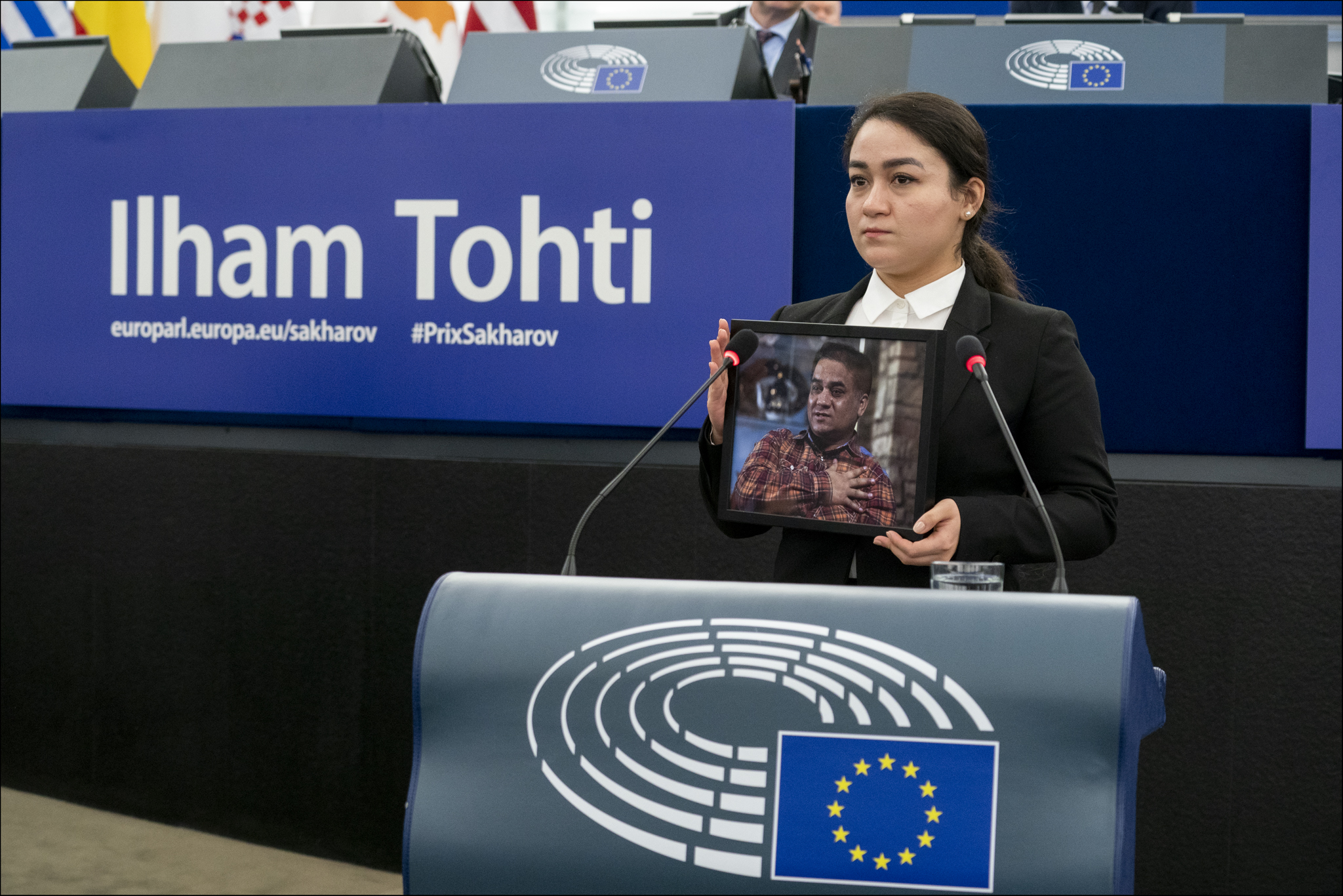 Ilham Tohti's daughter Jewher Ilham accepted the 2019 Sakharov Prize for Freedom of Thought on Wednesday on behalf of her jailed father. Ilham Tohti, a Uyghur scholar fighting for the rights of China’s Muslim Uyghur minority, has been in jail since 2014 on separatism-related charges. Presenting the award, Parlimaent President David Sassoli said: “Ilham Tohti, with his activism, managed to give a voice to the Uyghurs. [...] He has been working for 20 years to promote dialogue and mutual understanding between them and other Chinese people. "Today should be a moment of joy, to celebrate freedom of speech. Instead, it is a day of sadness. Once again, this chair is empty, because in the world we are living, exercising our freedom of thought does not always mean being free." Read more: This photo is free to use under Creative Commons license CC-BY-4.0 and must be credited: "CC-BY-4.0: © European Union 2019 – Source: EP". No model release form if applicable. For bigger HR files please contact: webcom-flickr(AT)